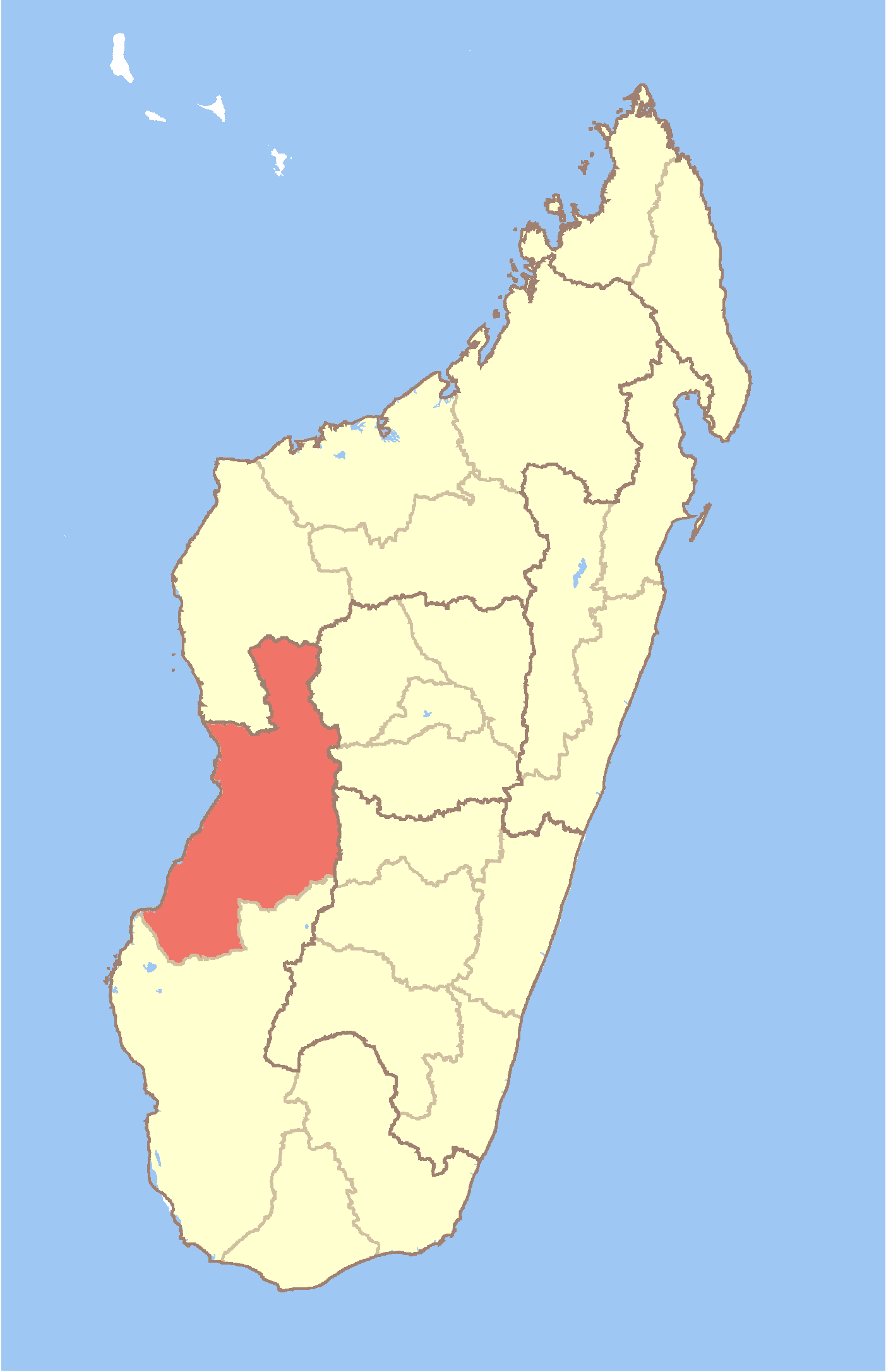 Map of Madagascar with Menabe region highlighted